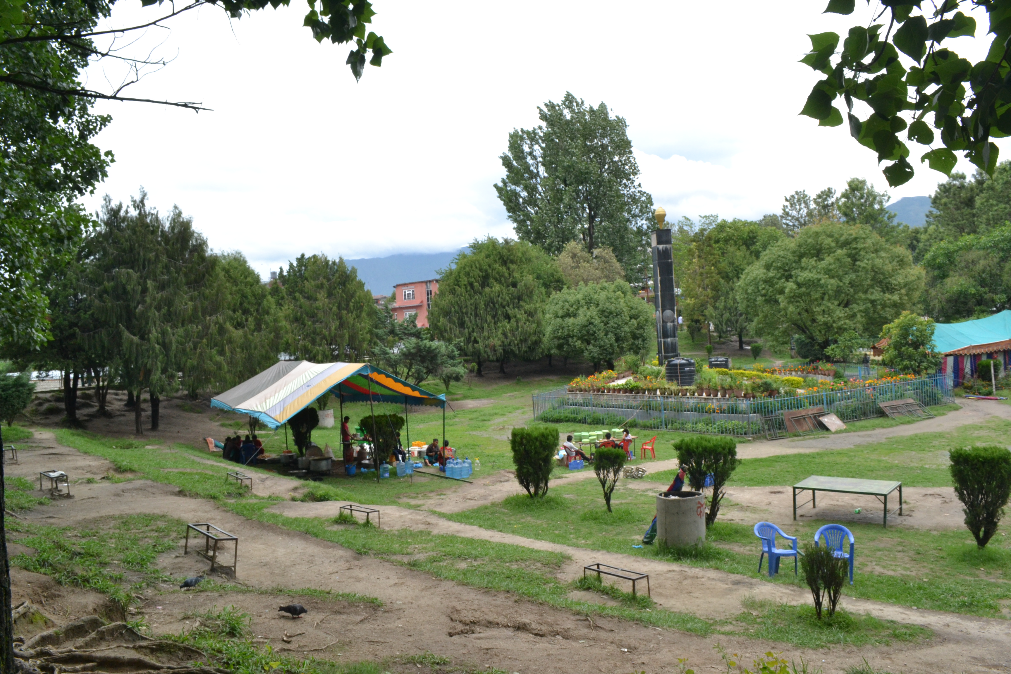 Shankh Park at Dhumbarahi Kathmandu